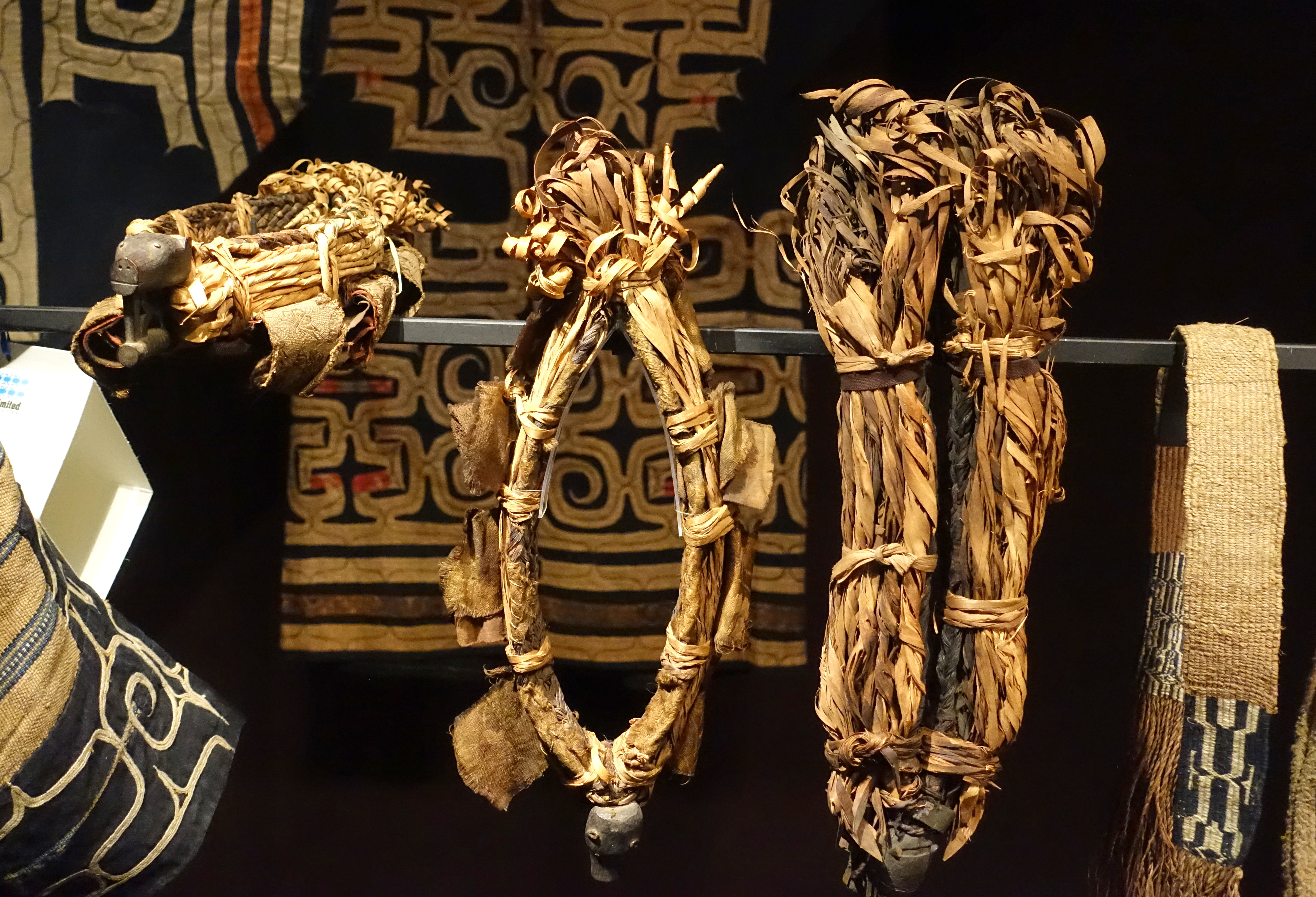 Exhibit in the Etnografiska museet, Stockholm, Sweden. This work is old enough so that it is in the public domain.